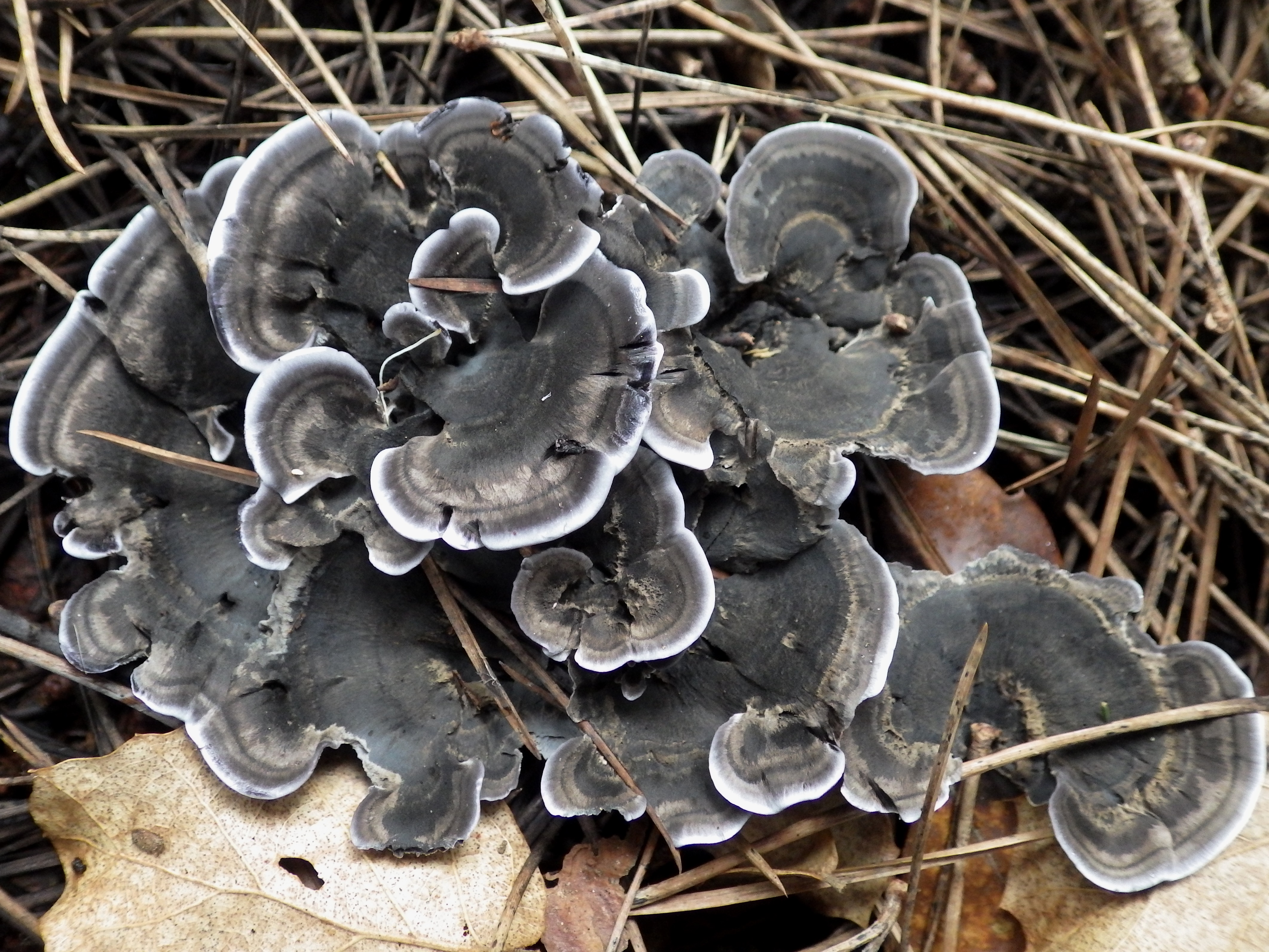 A fruit body of the hydnoid fungus Phellodon niger. Photographed in Sintra, Portugal.